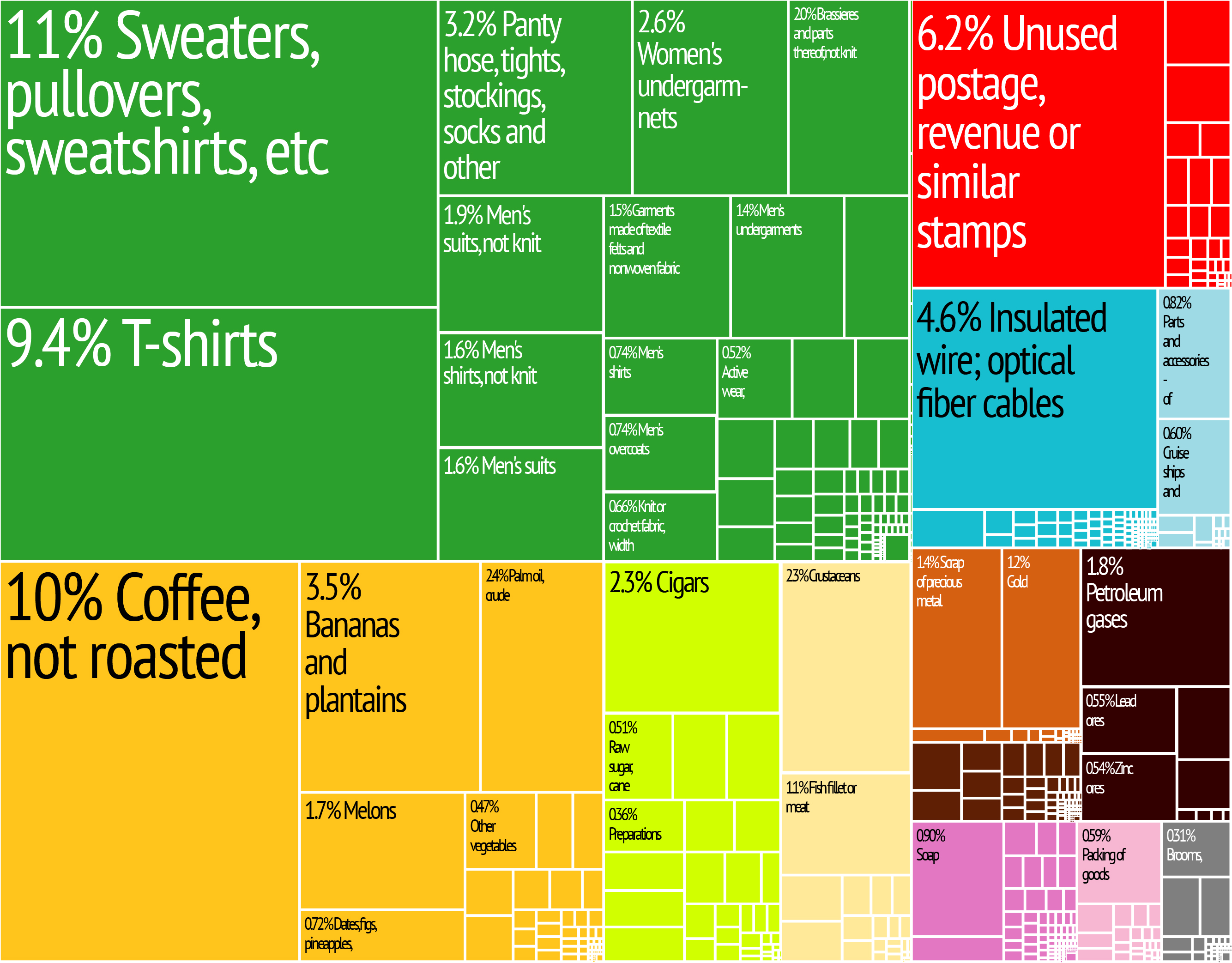 Honduras Export Treemap from MIT Harvard Economic Complexity Observatory